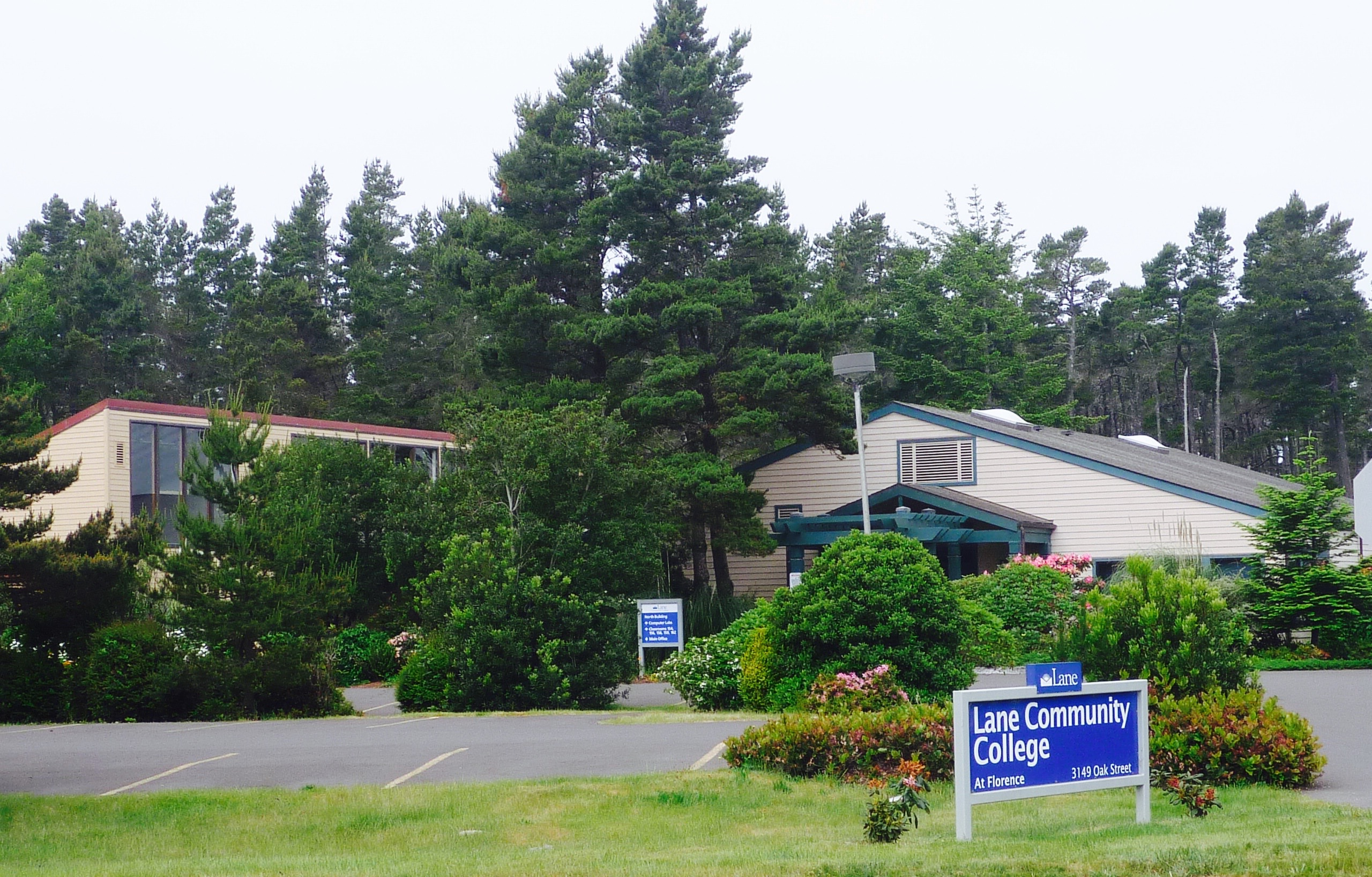 Satellite center in Florence, Oregon